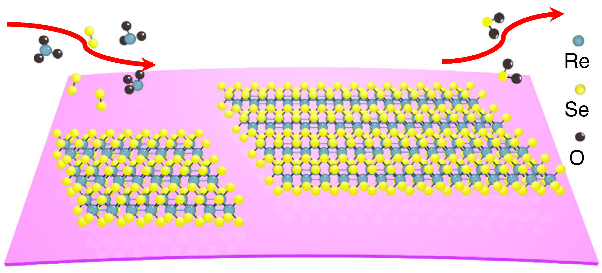 Schematic of the ReSe2 growth from Se and ReO3